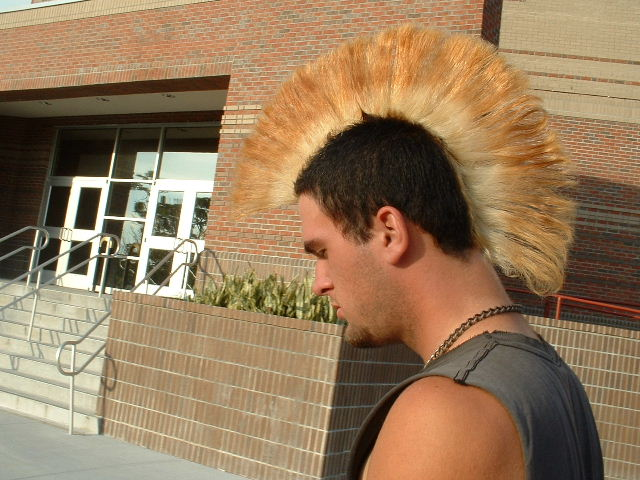 Example of a fanned mohawk